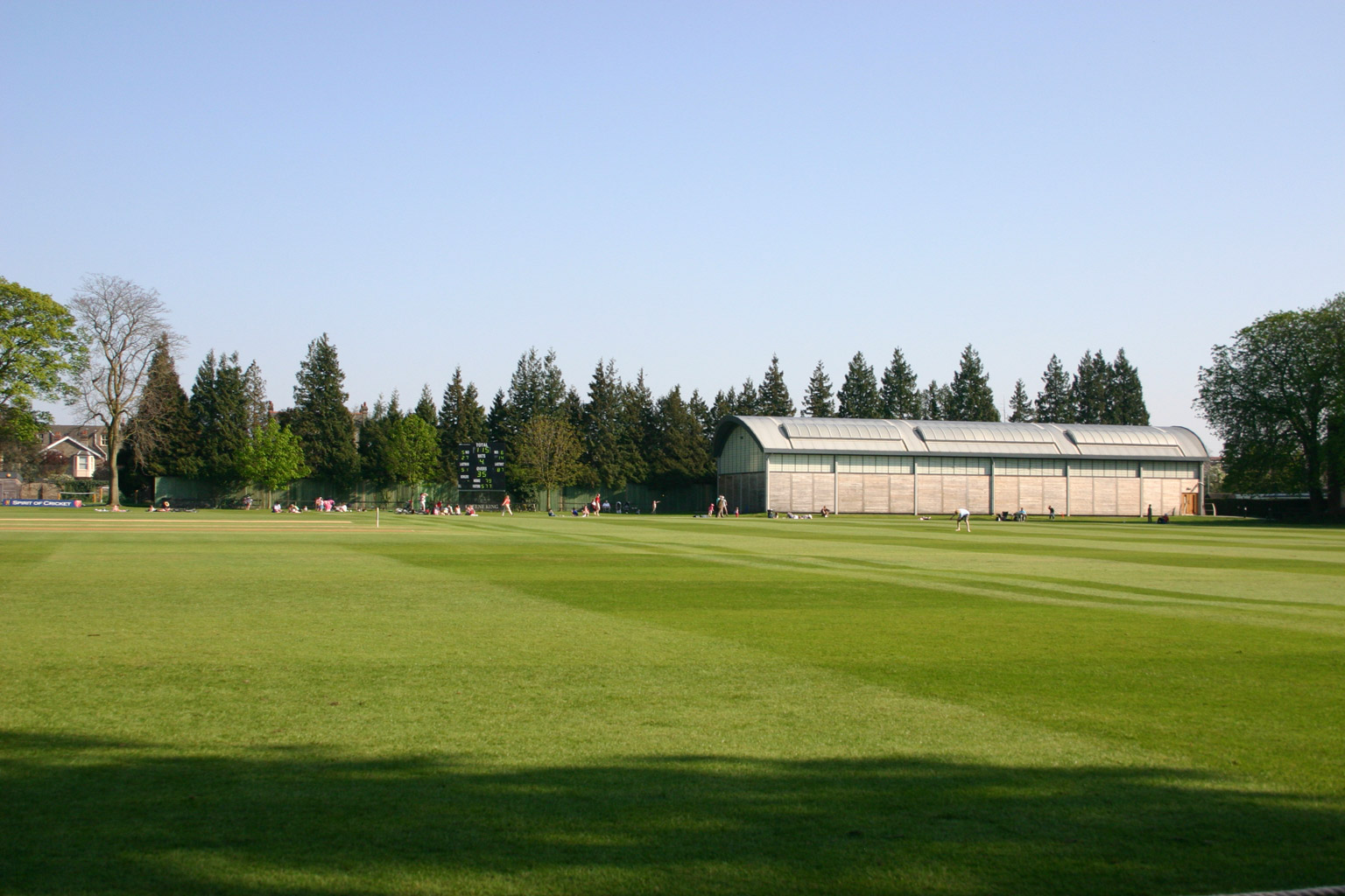 Fenner's cricket ground, Cambridge, showing the indoor cricket school. Taken by myself, Stephen Turner on en:15 April en:2007.